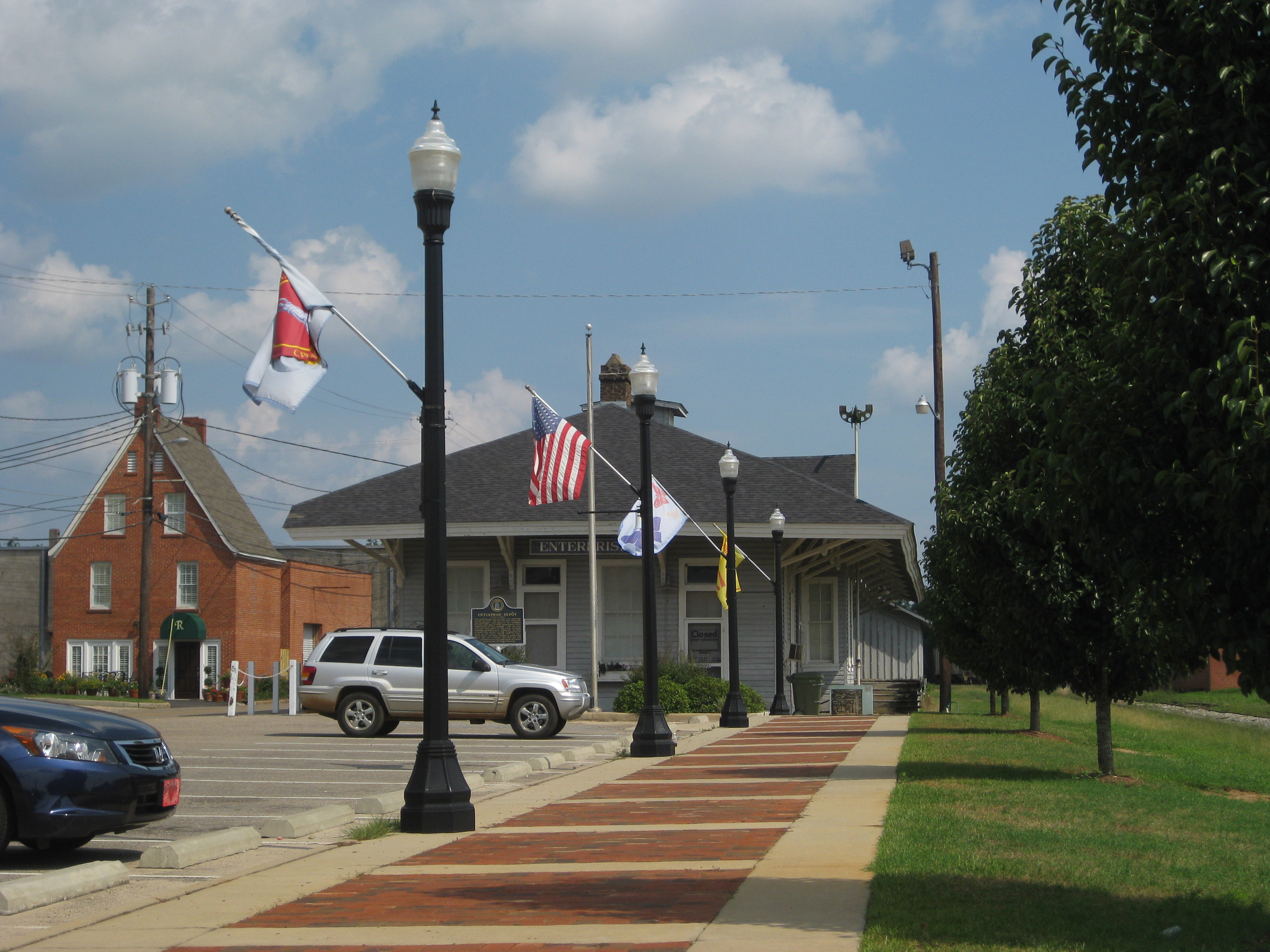 The Depot Museum of downtown Enterprise, Alabama stands in the 1903 former rail depot, originally built by the Alabama Midland Railway.